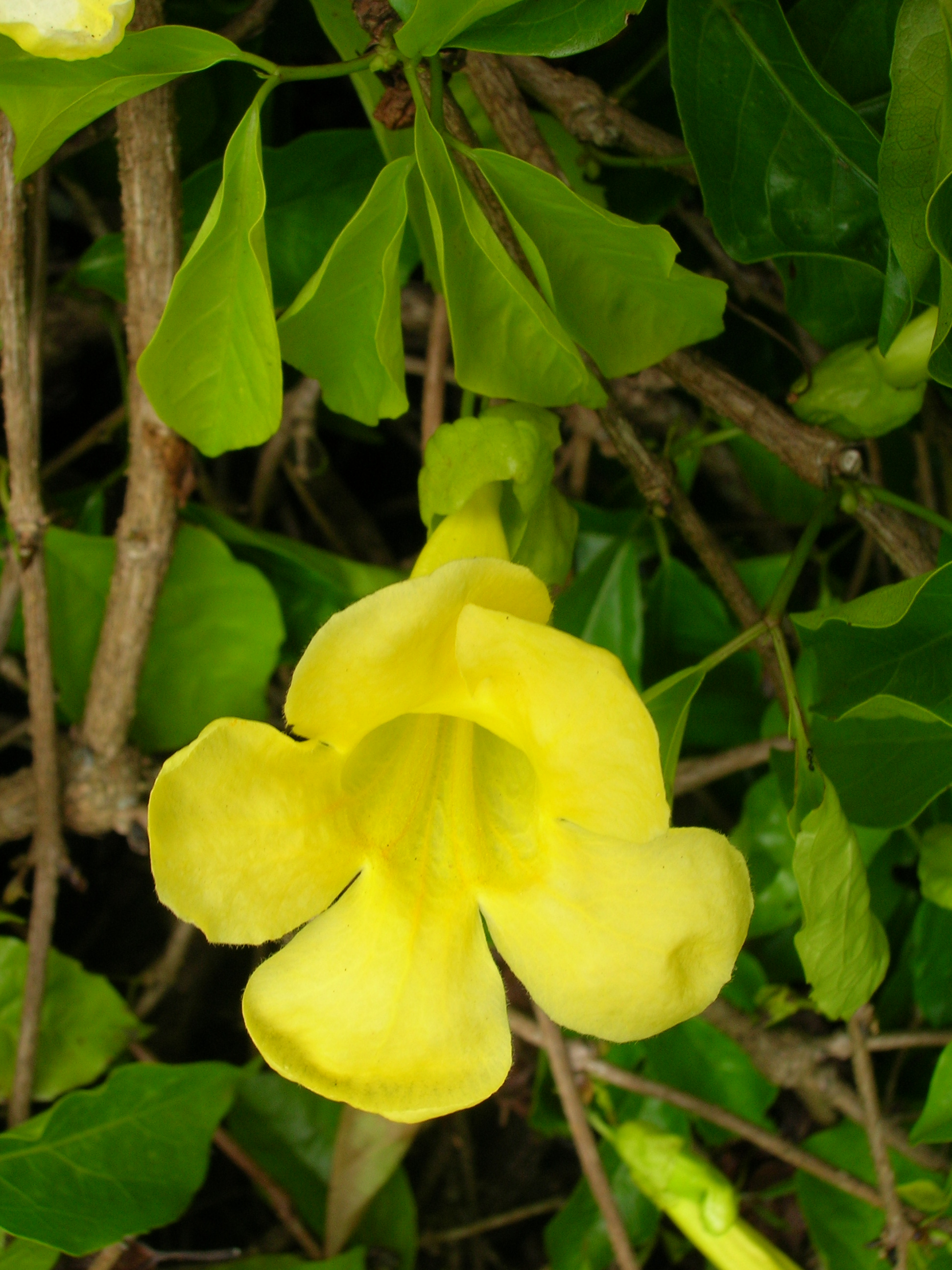 Macfadyena unguis-cati (flowers). Location: Maui, Baldwin Ave Makawao